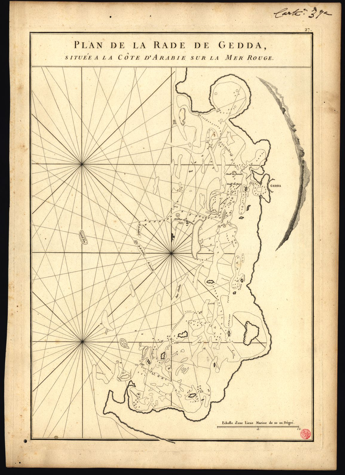 Map of Jeddah harbour, ca 1827